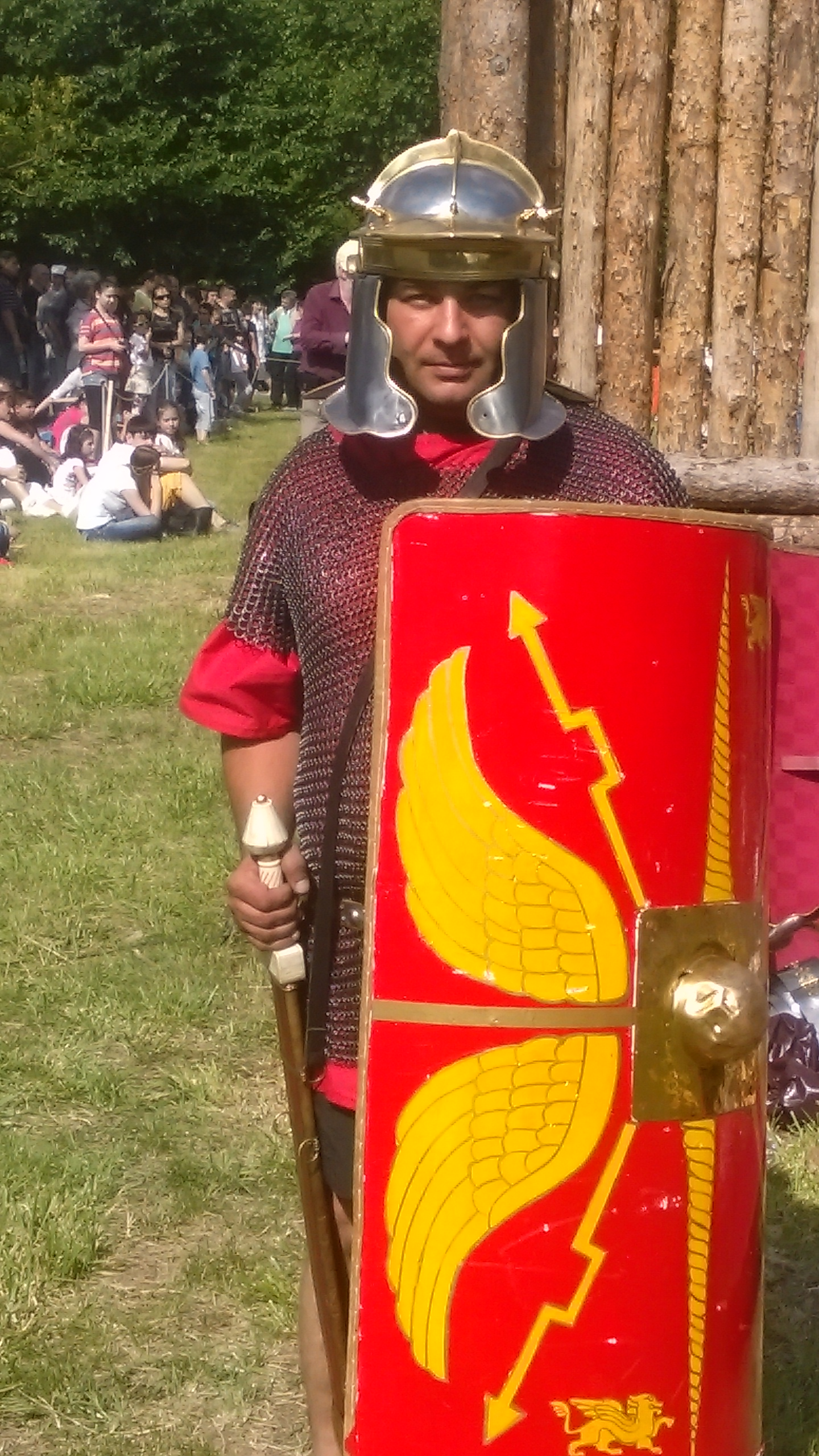 Roman legionary, Abritus historical reenactment, Razgrad